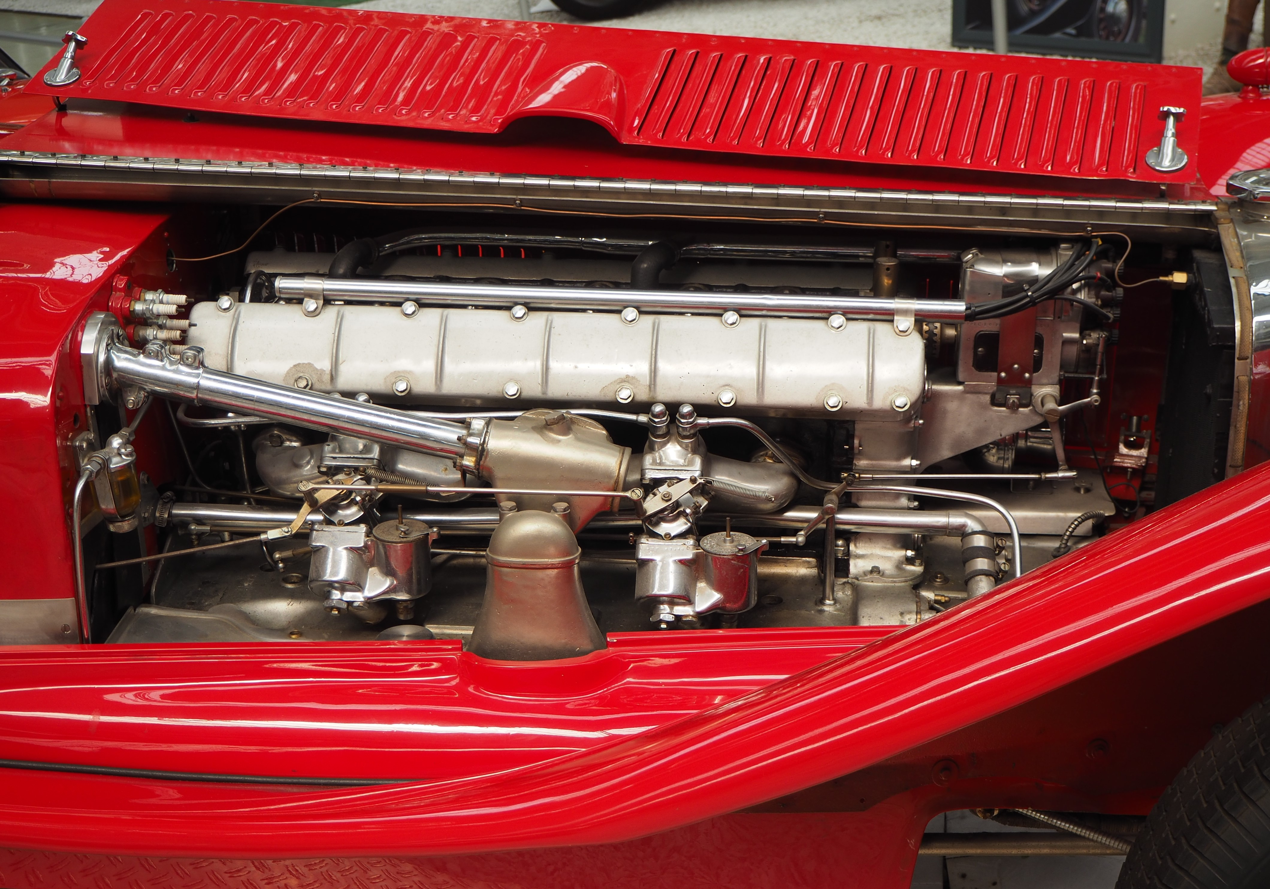 1927 Sunbeam 3 litre DOHC engine.